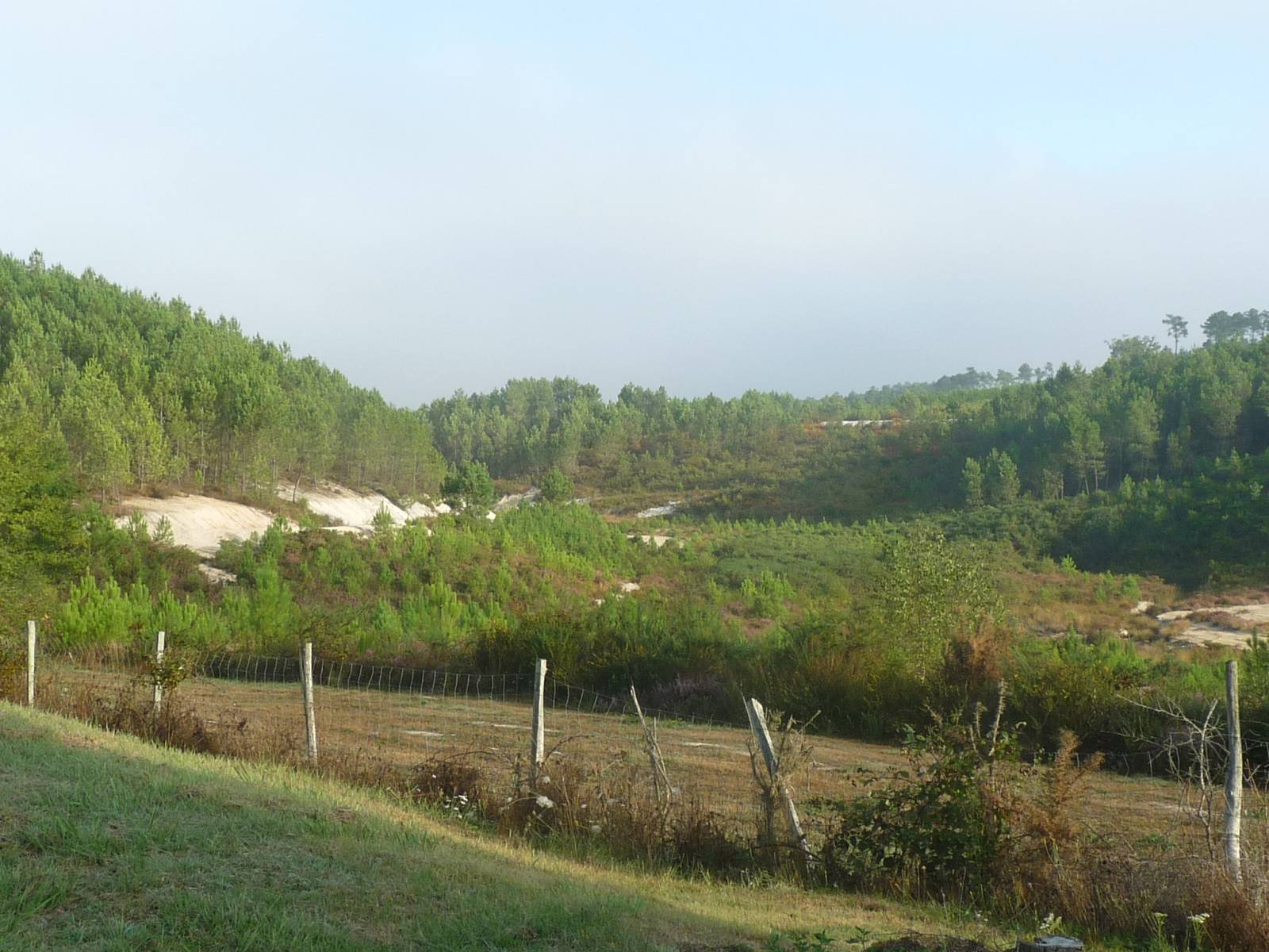 Double Forest at Guizengeard, Charente, SW France